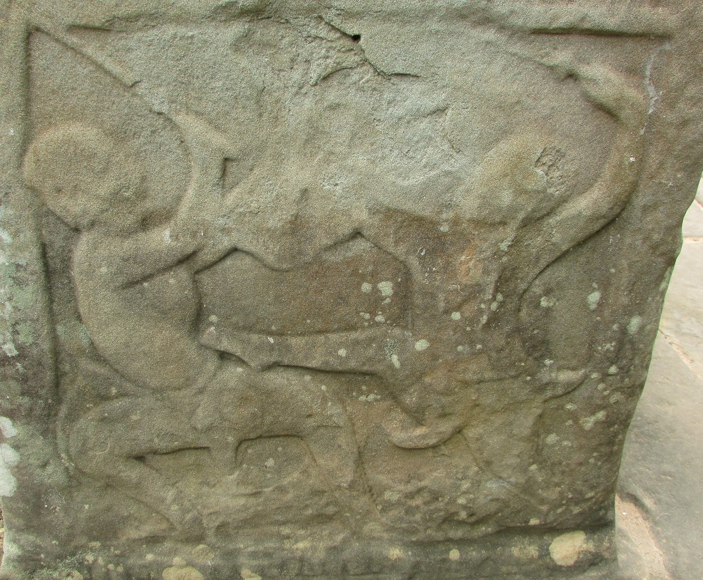 ancient bas-relief of khmer martial arts.